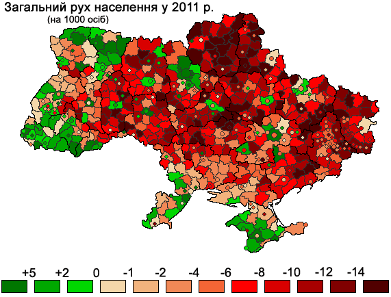 Population growth rate in Ukraine, 2011